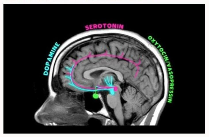 Sex in MRI scan